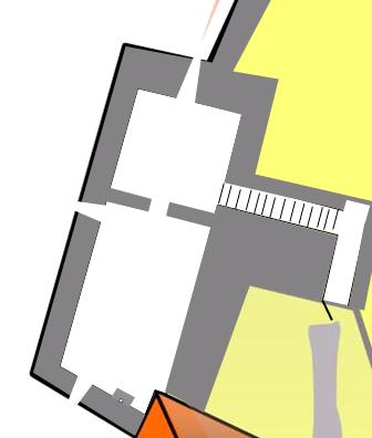 Sousterrain (kasemat) at Kongsten fort, Vest Redang. (Not true to scale)